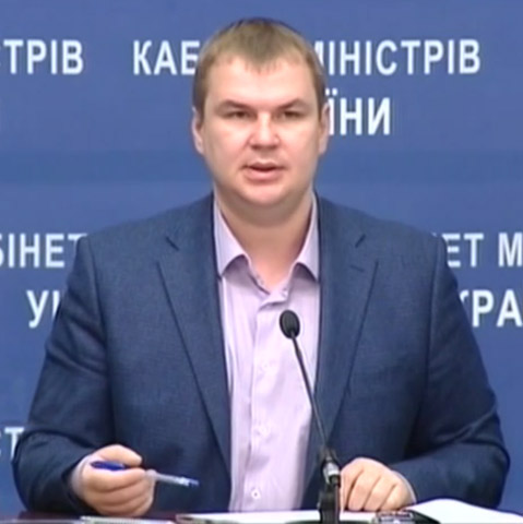 Dmytro Bulatov, Ukrainian activist and politician, Minister of Youth and Sports of Ukraine